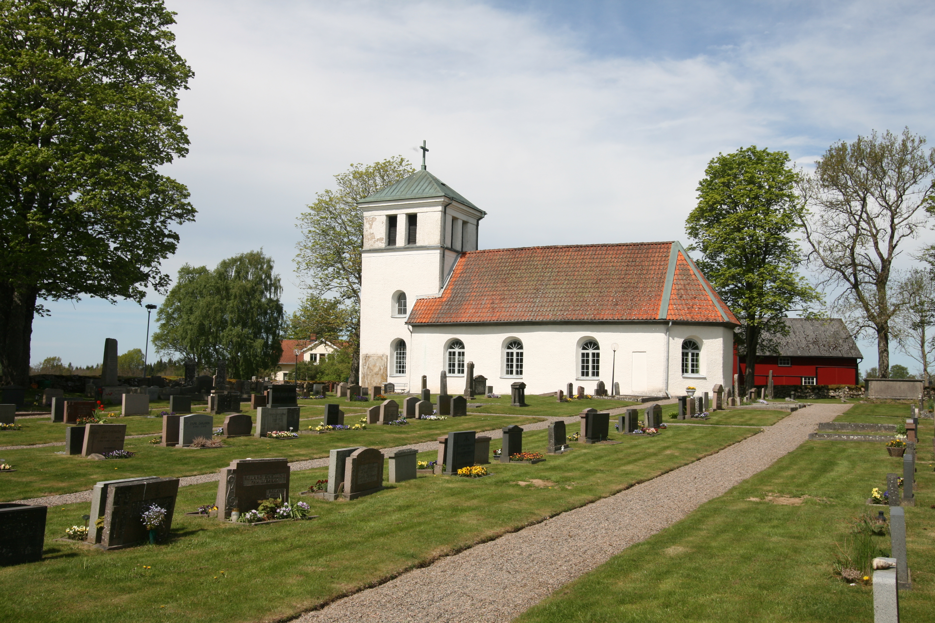 Grude Church